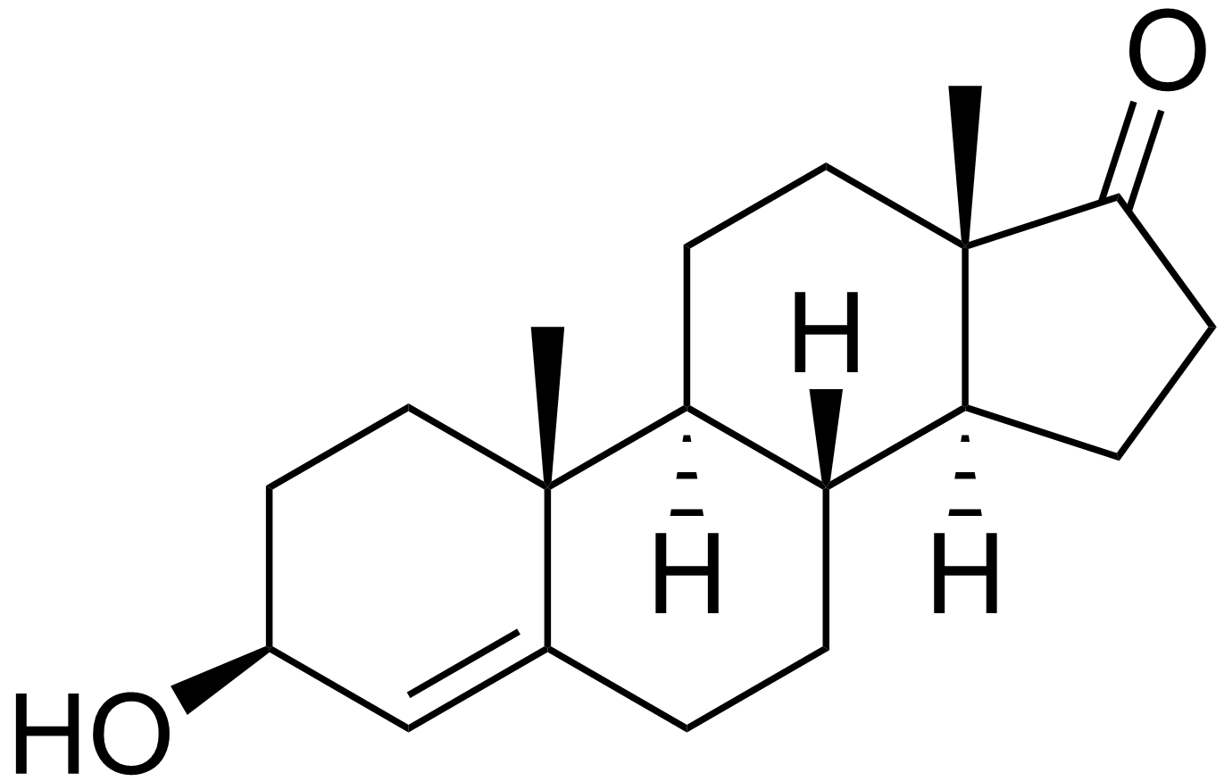 Chemical structure of 3beta-Hydroxyandrost-4-en-17-one (4-dehydroepiandrosterone)